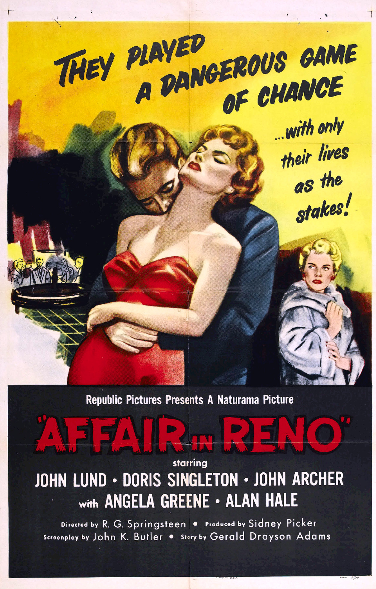 Poster for the 1957 film Affair in Reno. There are no copyright marks. At bottom is Litho in USA and 49570 57/58.